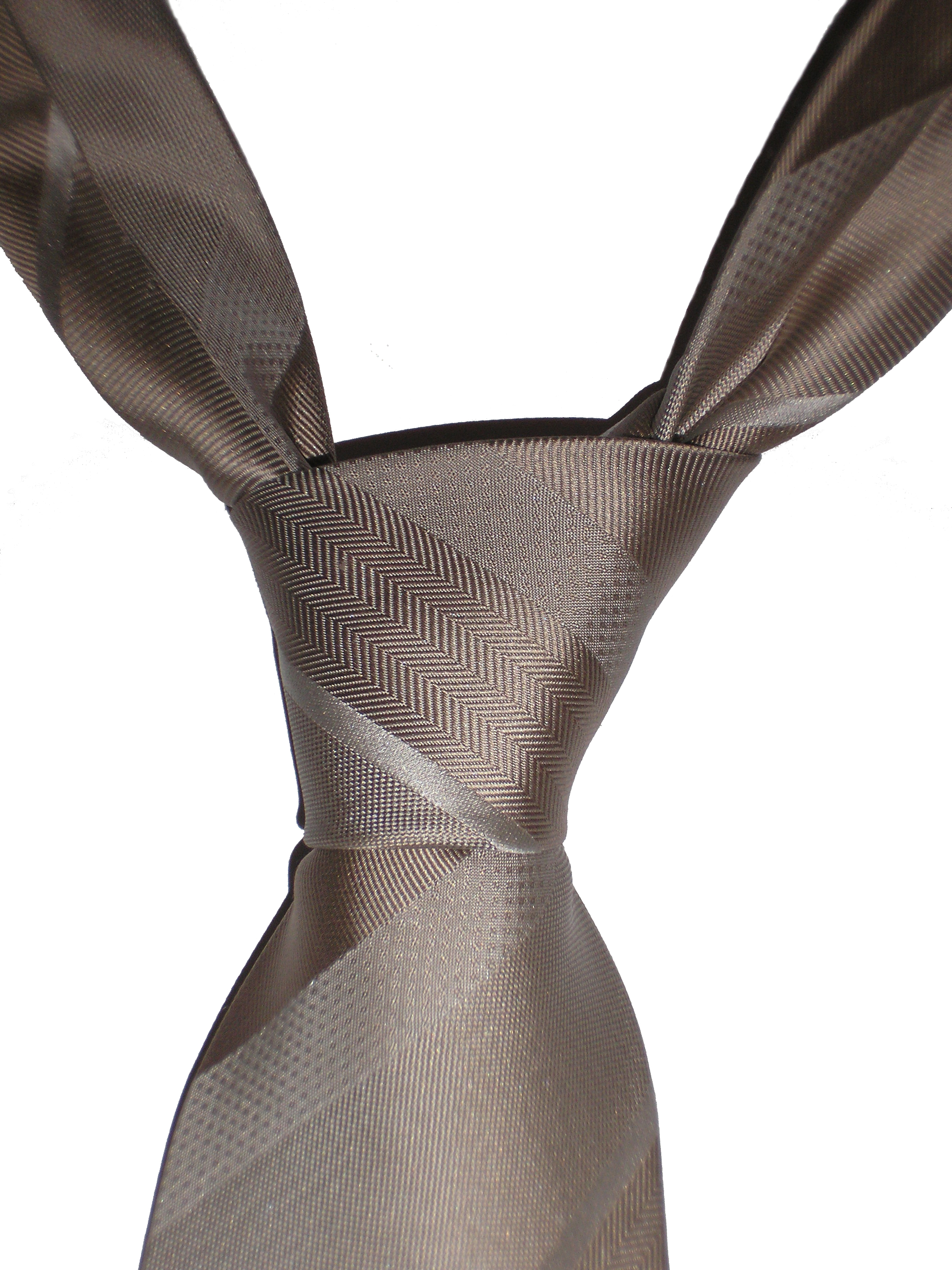 Oriental or small knot in a biege, patterned, silk tie.